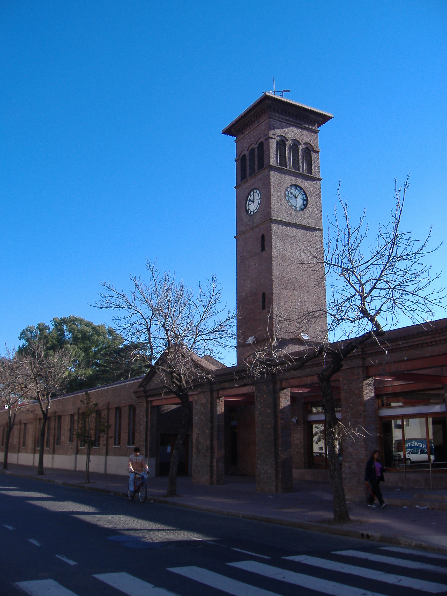 The clock tower of the former Rosario Central railway station in Rosario, Argentina, built in 1870. The main building has been preserved and turned into the Municipal District Center for the downtown district. See Districts of Rosario and this district center's webpage.